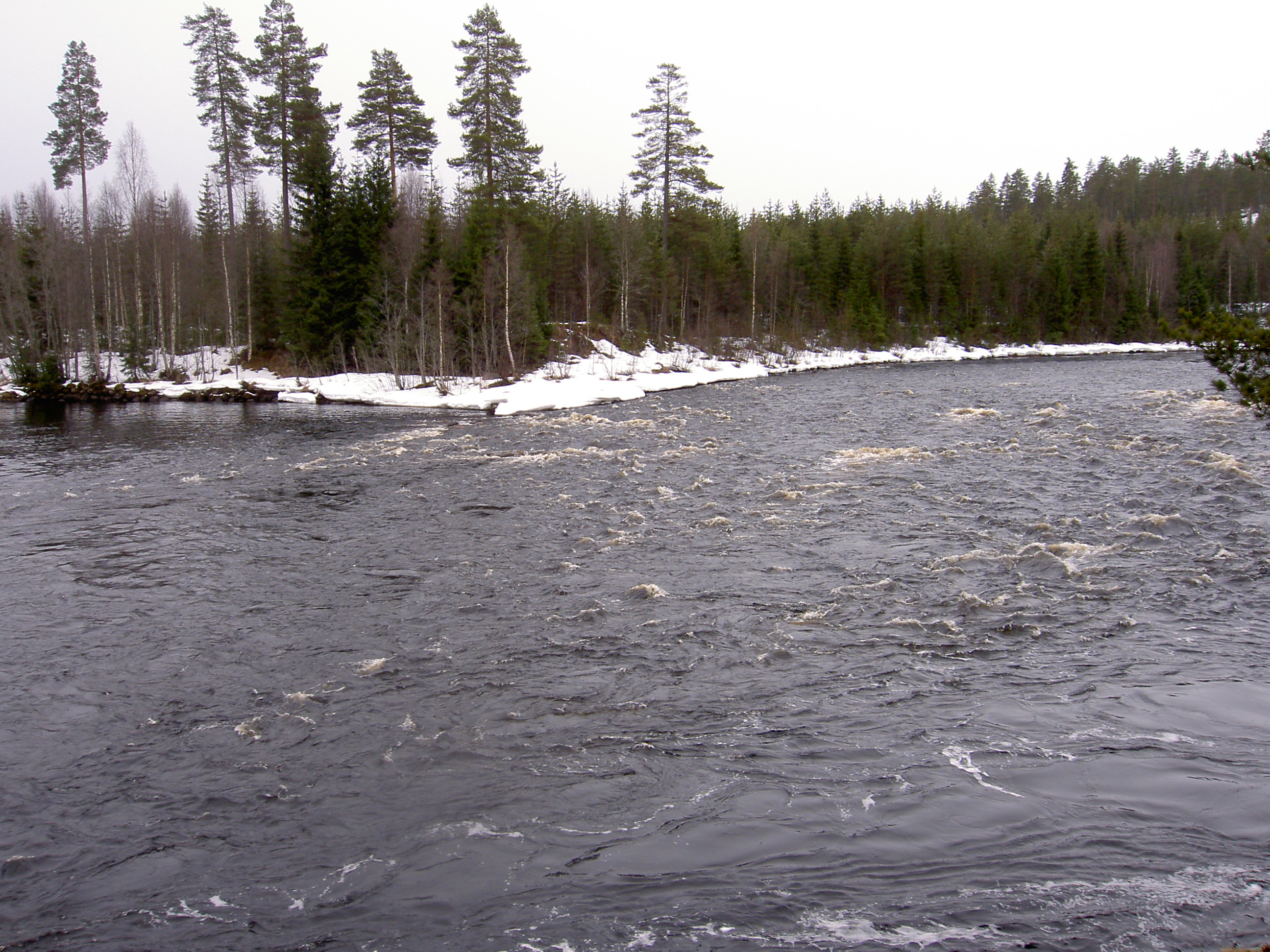 Vemforsen and Grådön, Västerdalälven, Sweden